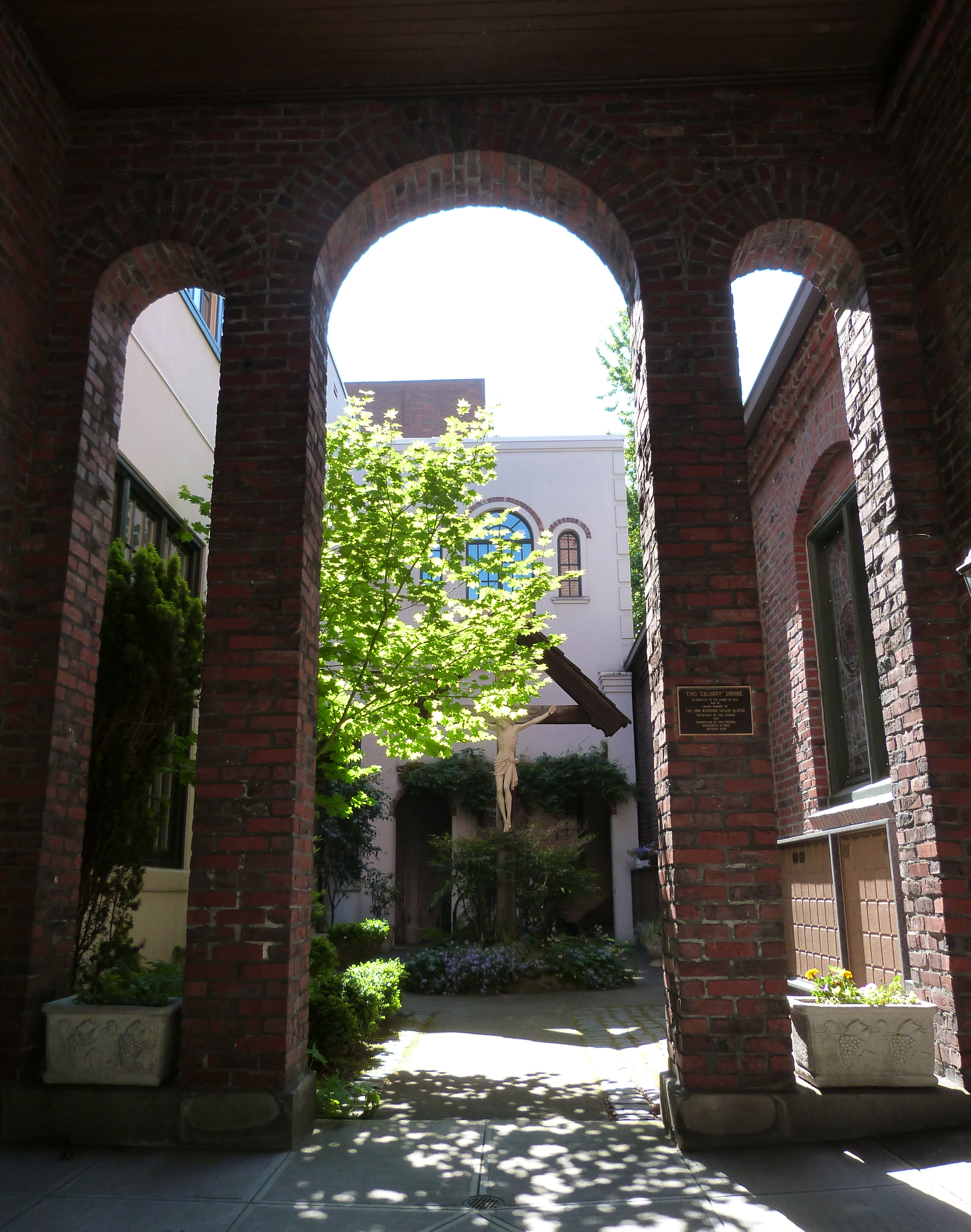 The historic St. Mark's Anglican Church (built 1925), located at 1025 Northwest 21st Avenue in Portland, Oregon, United States, is listed as a contributing resource in the Alphabet Historic District. The historic district is listed on the US National Register of Historic Places.